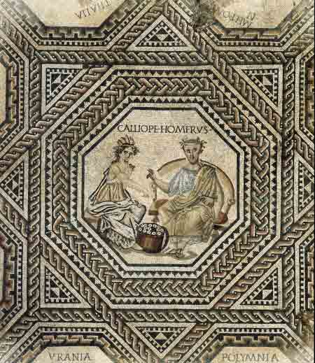 Centrepiece of Roman mosaic depicting the muses found in Vichten, Luxembourg. It shows Calliope, the muse of epic poetry, with the poet Homer.